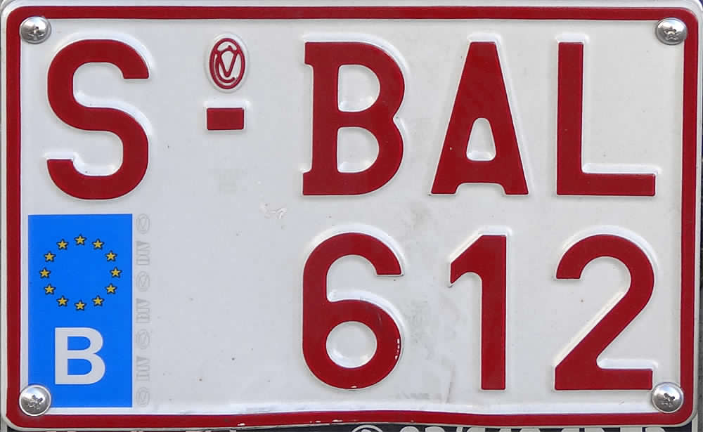 This image represents a Belgian scooter plate seen in Dinslaken (Germany), with a dash after the "S" in the type issued from 31/10/2014 to October 2016